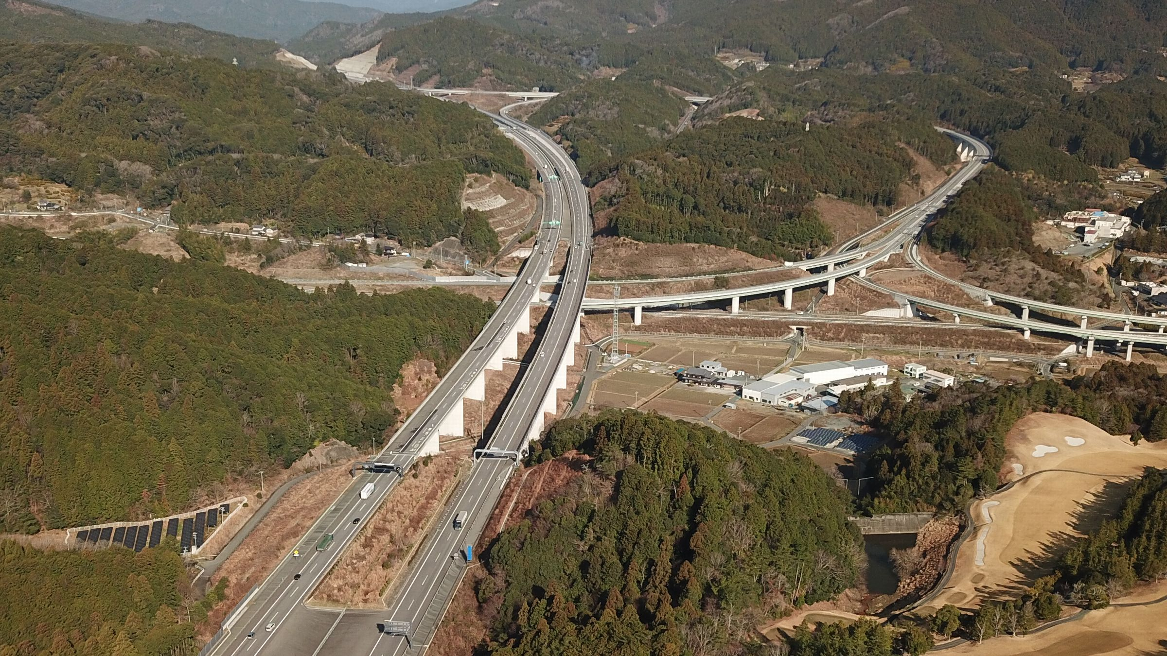 HAMAMATSU-INASA interchange on SHIN-TOMEI EXPWY and SAN-EN-NANSHIN expwy (HAMAMATSU city, SHIZUOKA pref., JAPAN)